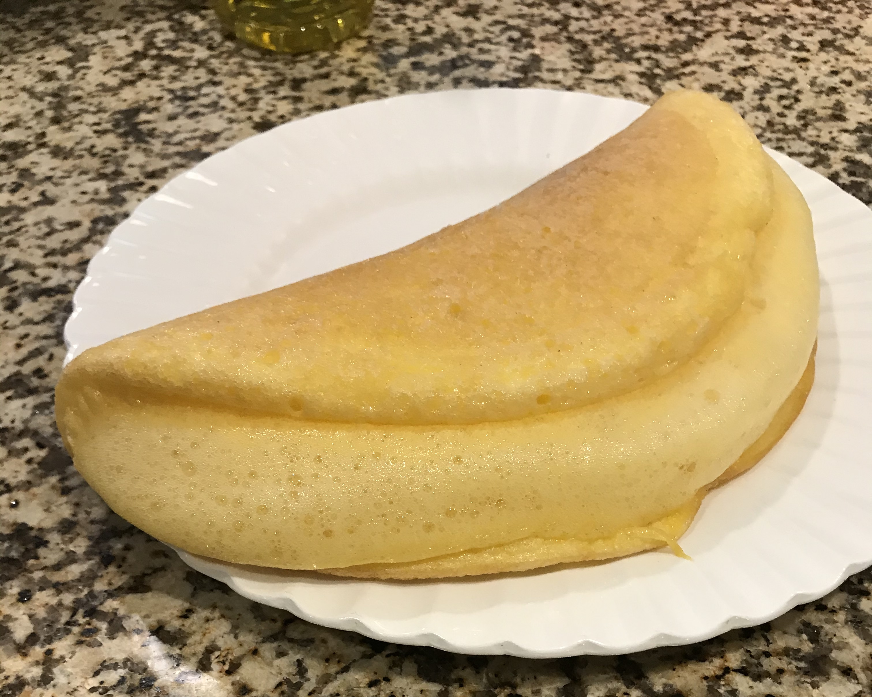 3-egg souffle omelet in the style of Omelet de la Mere Poulard, homemade